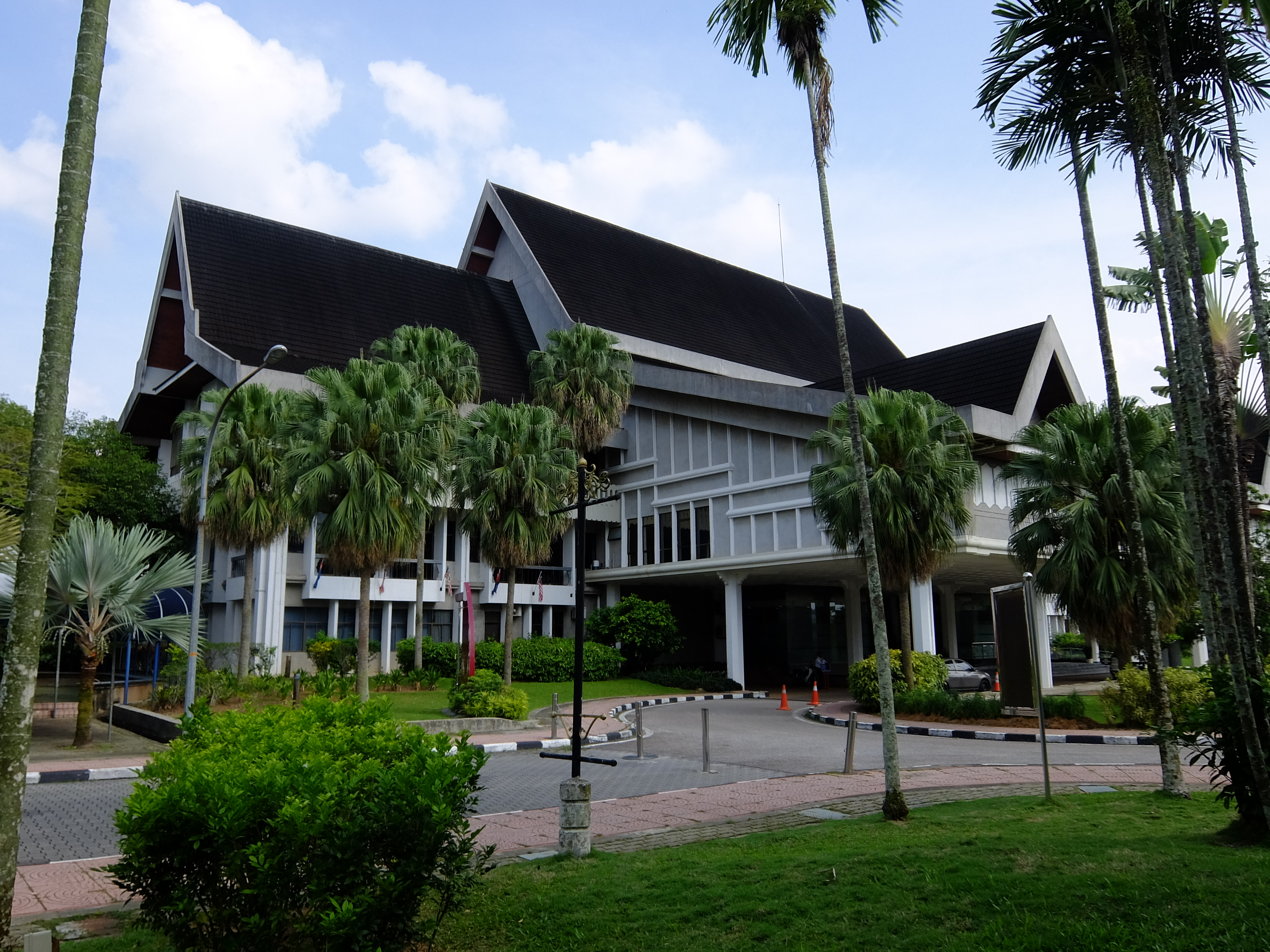 Sultan Ibrahim Chancellor Building, Malaysia University of Technology, Skudai, Iskandar Puteri, Johor Bahru, Johor, Malaysia